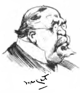 Caricature of Whitaker Wright by Harry Furniss from page 262 of Harry Furniss at Home, by Harry Furniss, published by Unwin, 1904.